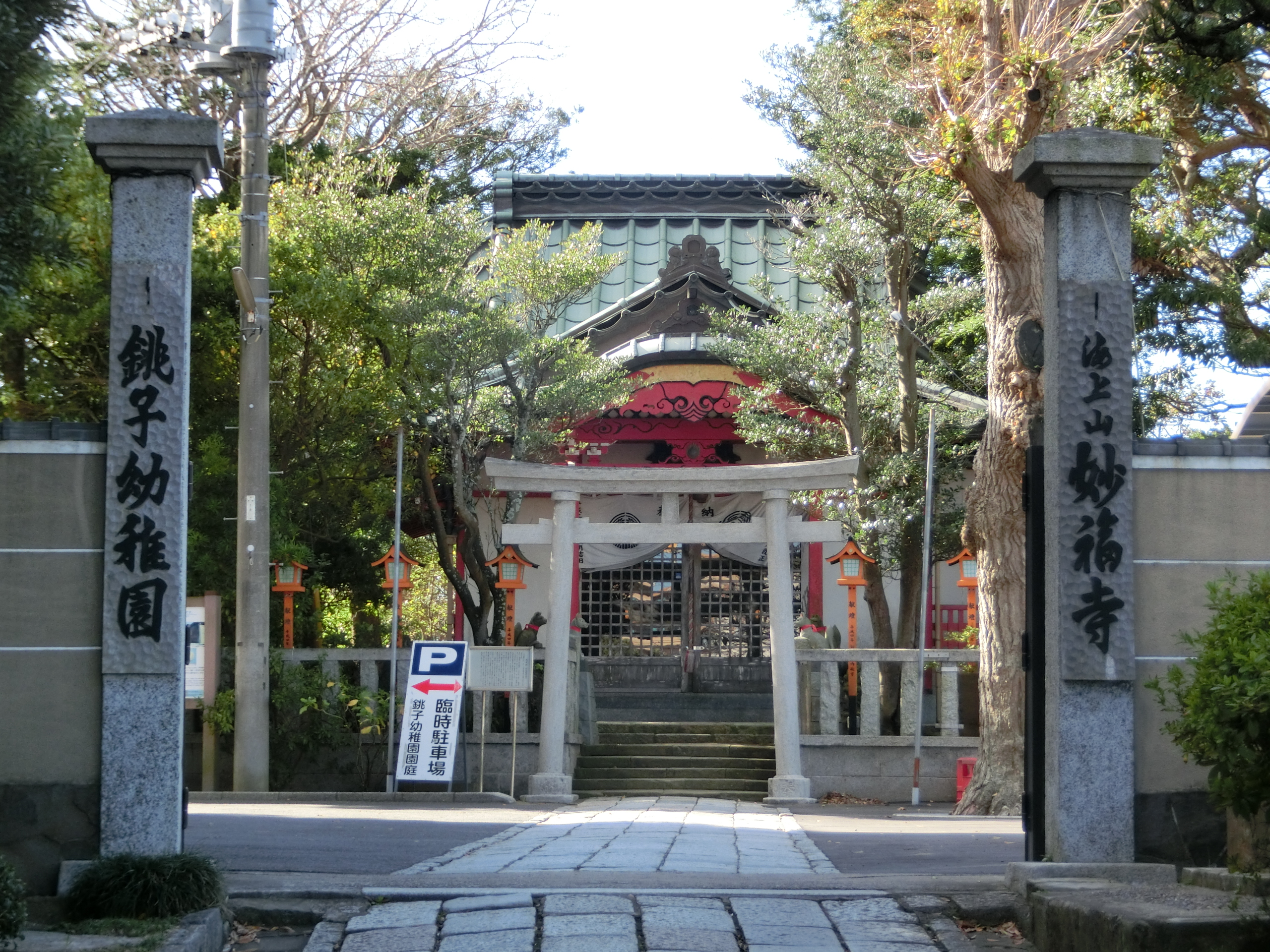 Myofuku-ji (Choshi)